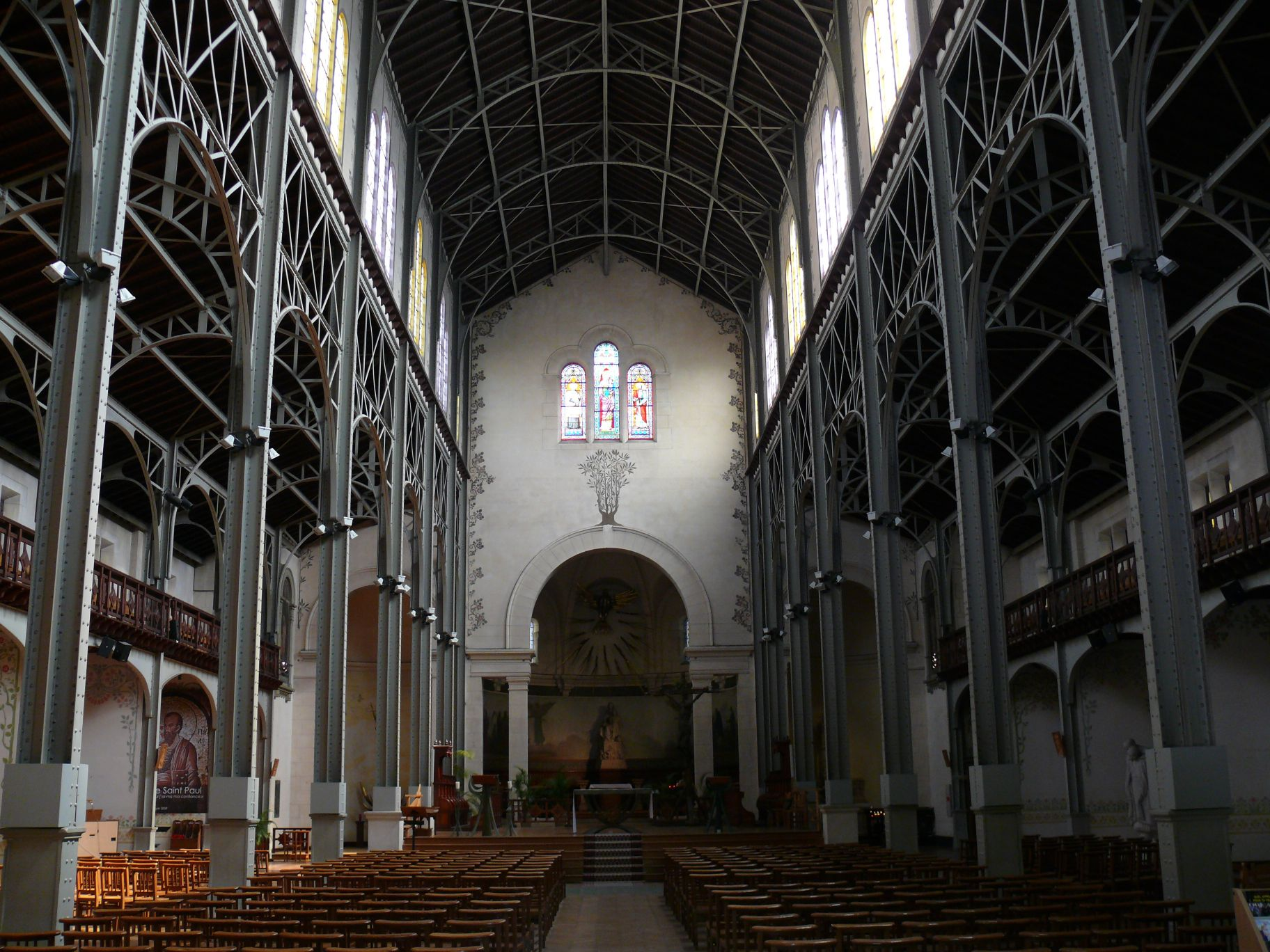 Notre-Dame-du-Travail's church (Paris XIV, France): inside